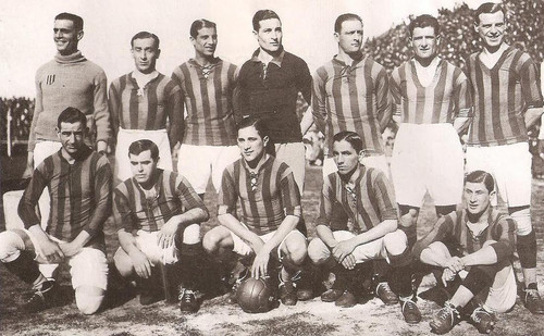 The San Lorenzo de Almagro football squad of 1927, Primera División champion.